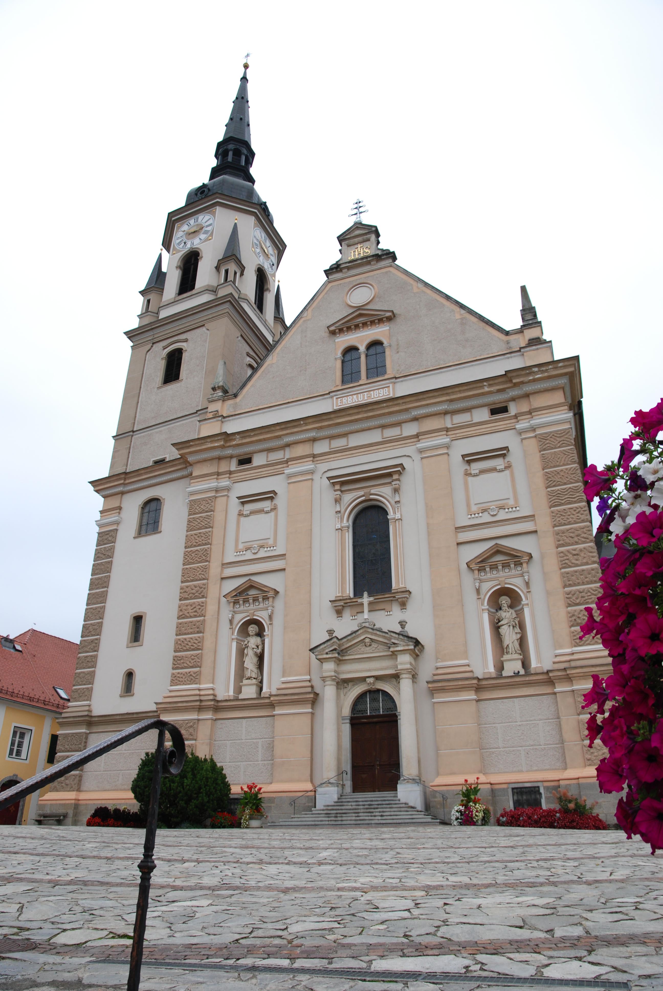 Kirche Pischelsdorf